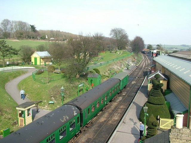 Unusual view of Ropley station Scaffolding to repair station house chimneys allowed my access (I am a working volunteer at the Mid Hants Railway) for this almost aerial view of the picnic area, signal box, loco sheds - including the distant boiler shop, and 'parachute' water tower at Ropley station.